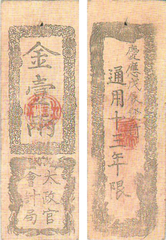 Daijo-kan bill